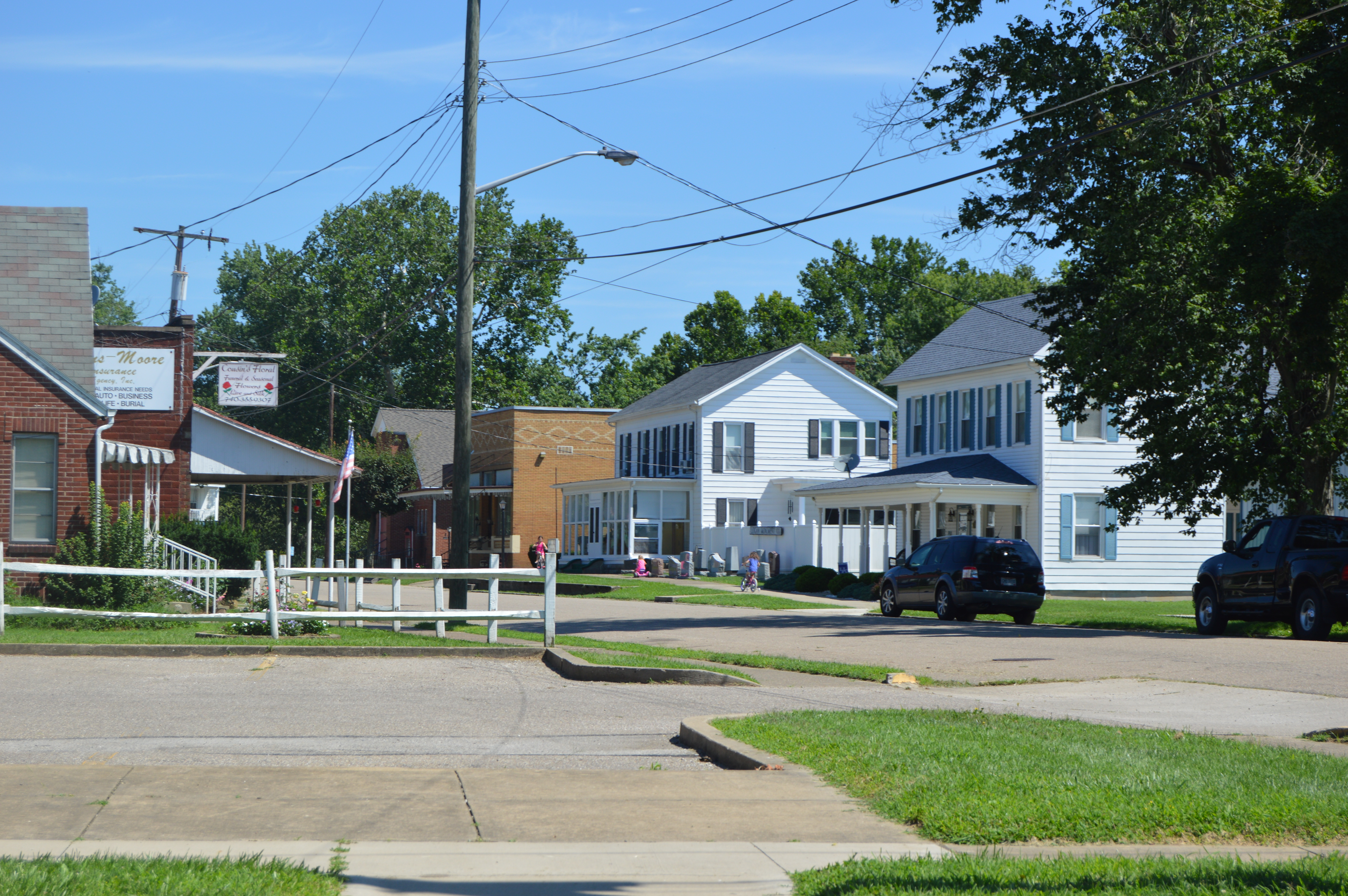 Looking northward on Main Street from the Jackson Street (State Routes 160/325) intersection in Vinton, Ohio, United States.